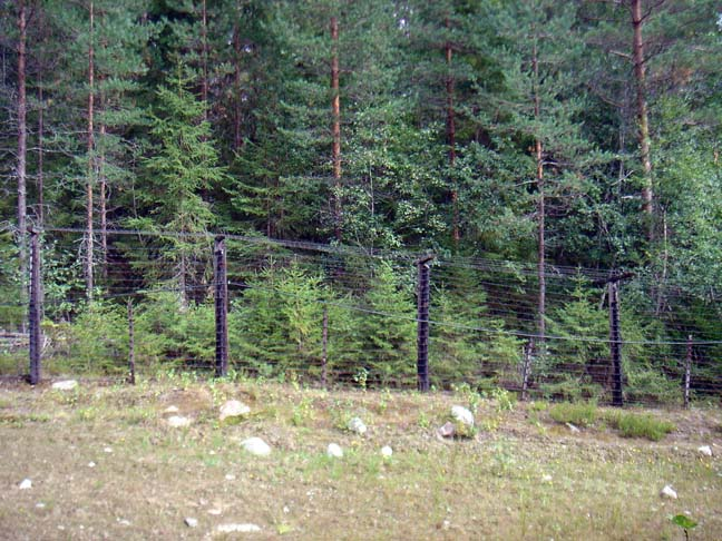 Electrionic border fence on the Soviet-Finnish border on the former Soviet side C-175 "Gardina". Советские пограничные инженерно-технические проволочные заграждения типа С-175 "Гардина"